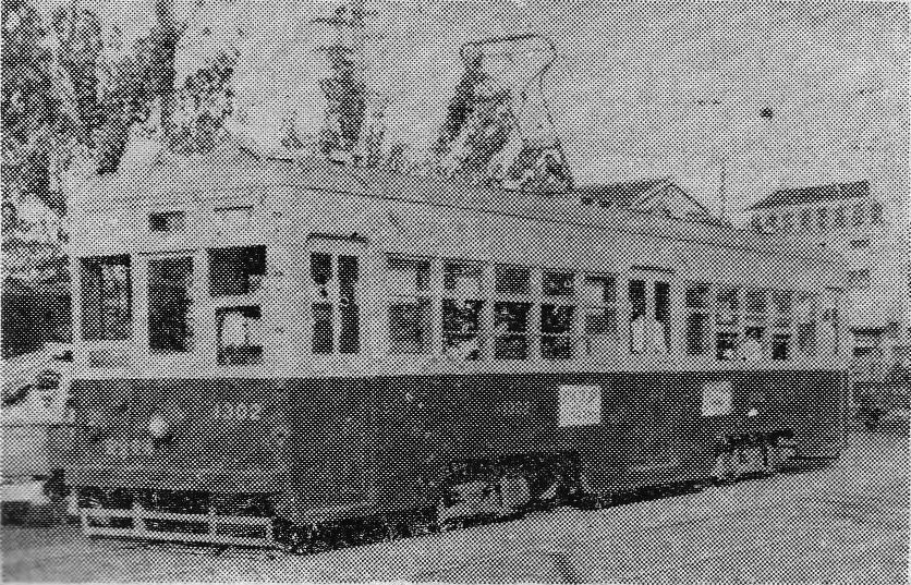 Osaka City Tram #1302